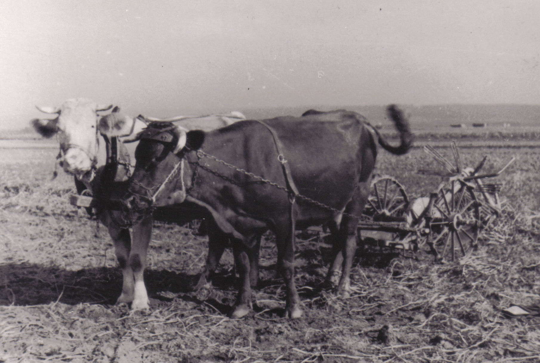 view of Enkenbach, Germany